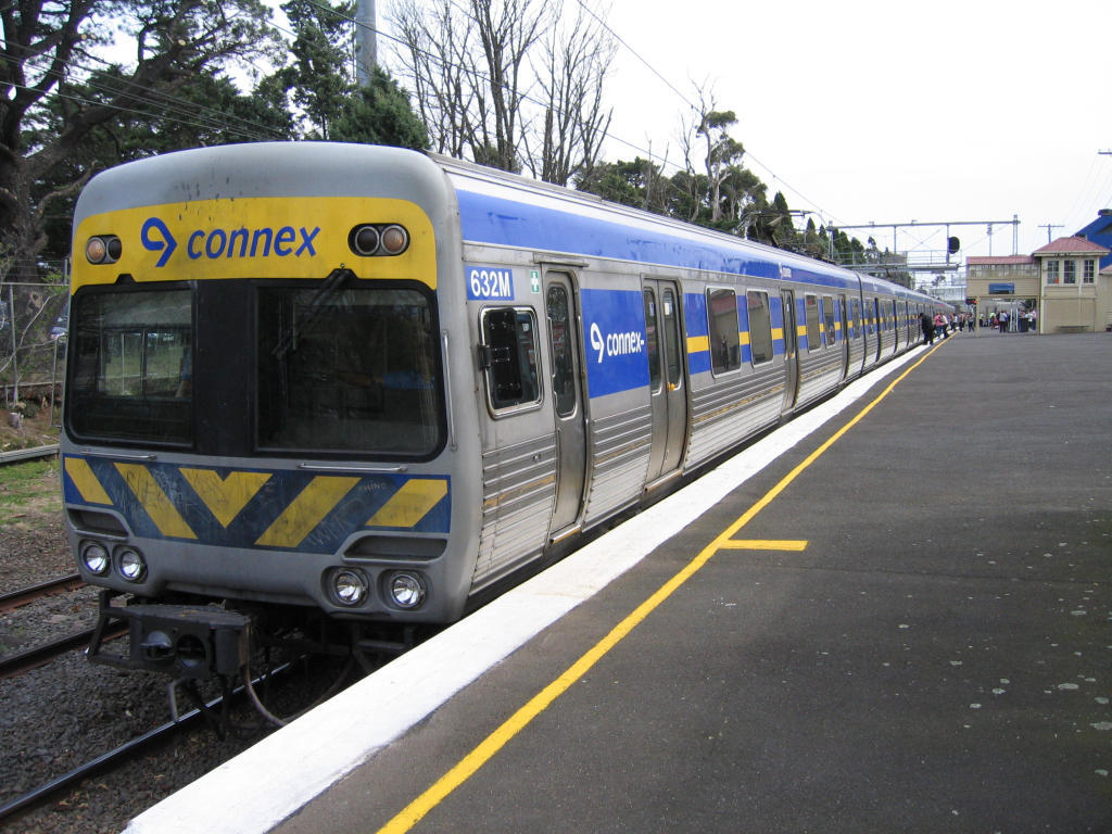 Comeng train at Showgrounds railway station - Melbourne, Australia